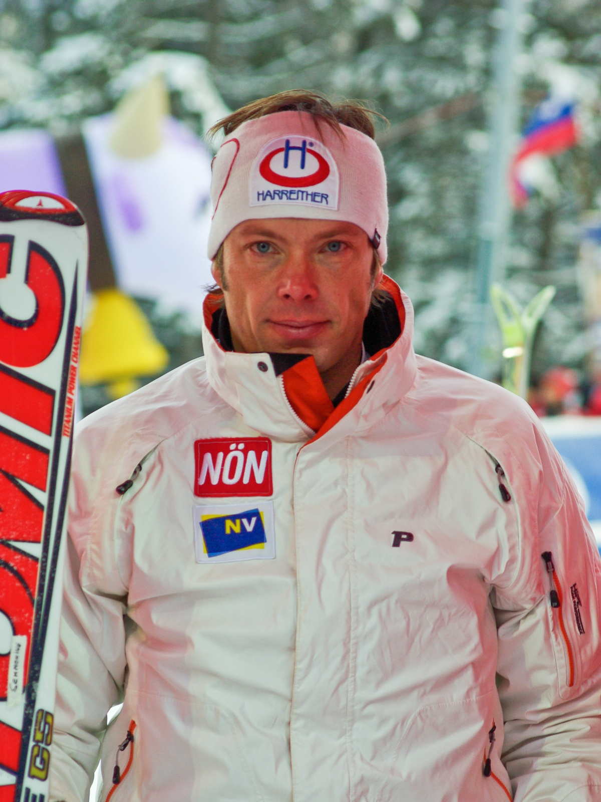 Former austrian alpine skier Thomas Sykora, now working as a camera driver and co-commentator for the Austrian broadcaster ORF, after the inspection of the second run of the giant slalom in Semmering (Austria) on 28 December 2008.